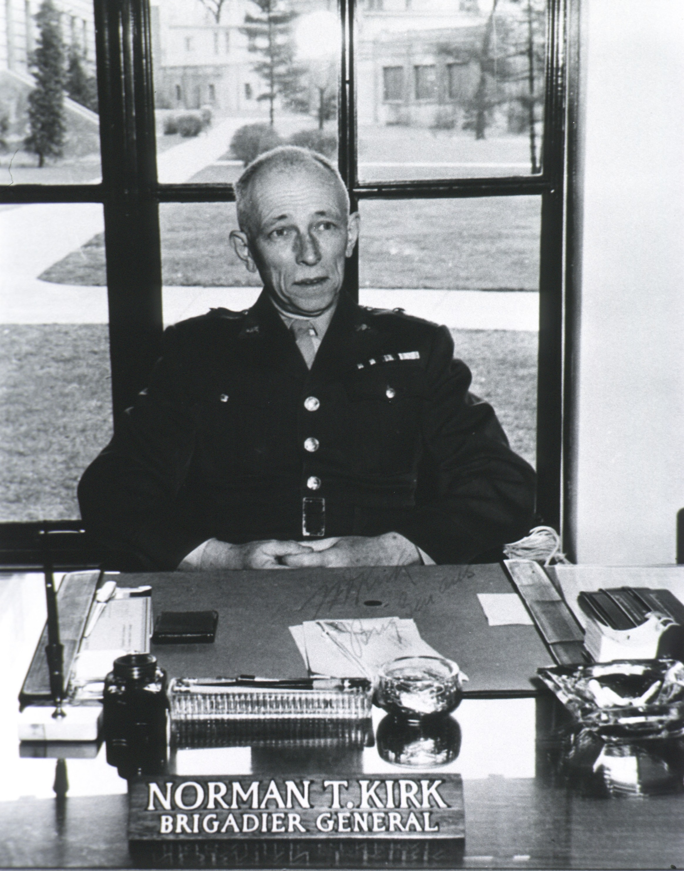 Norman T Kirk, Half-length, seated at desk, full face; wearing uniform; window in background.